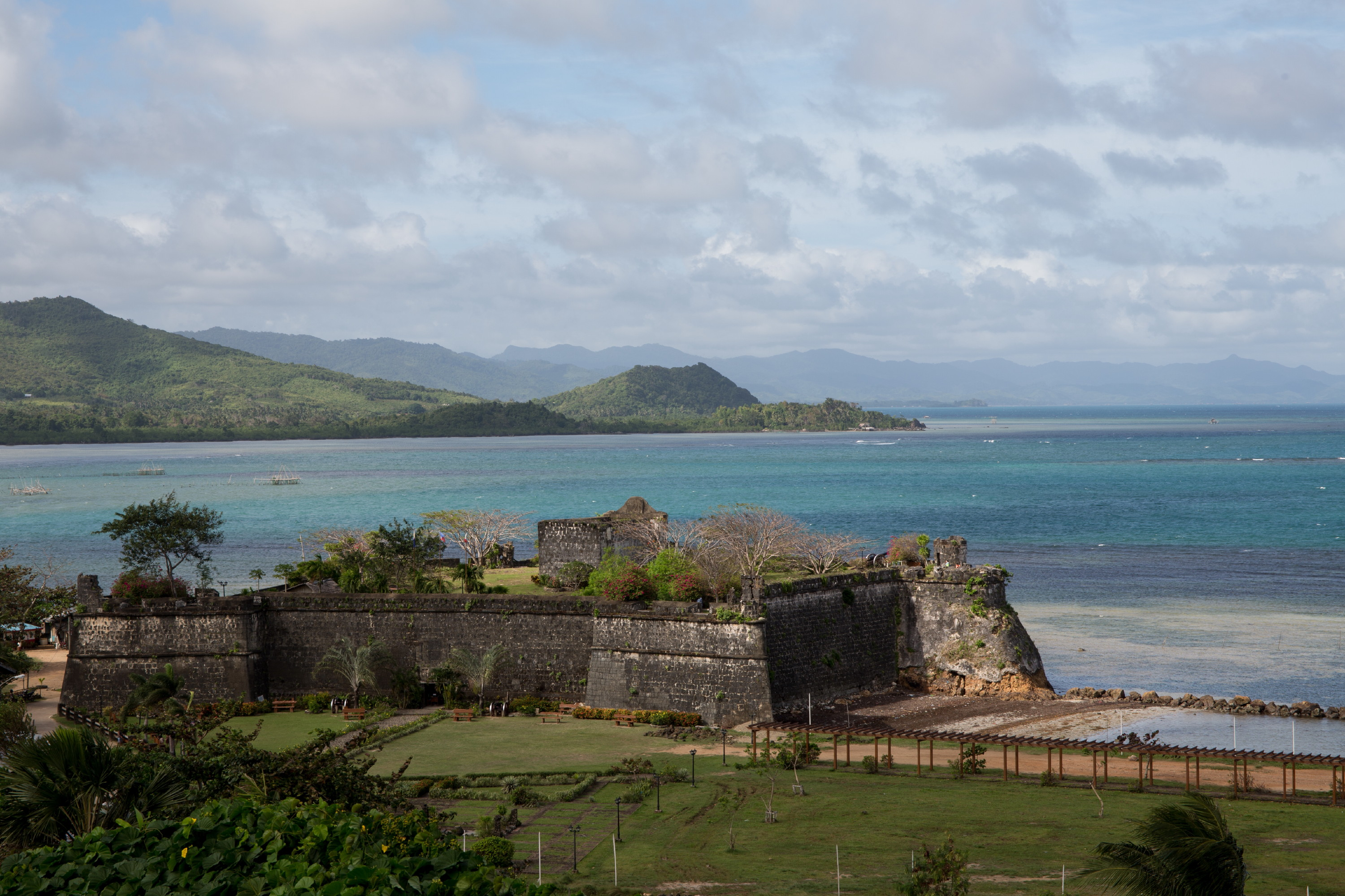 hispanic fortress in taytay, Palawan, Philippines